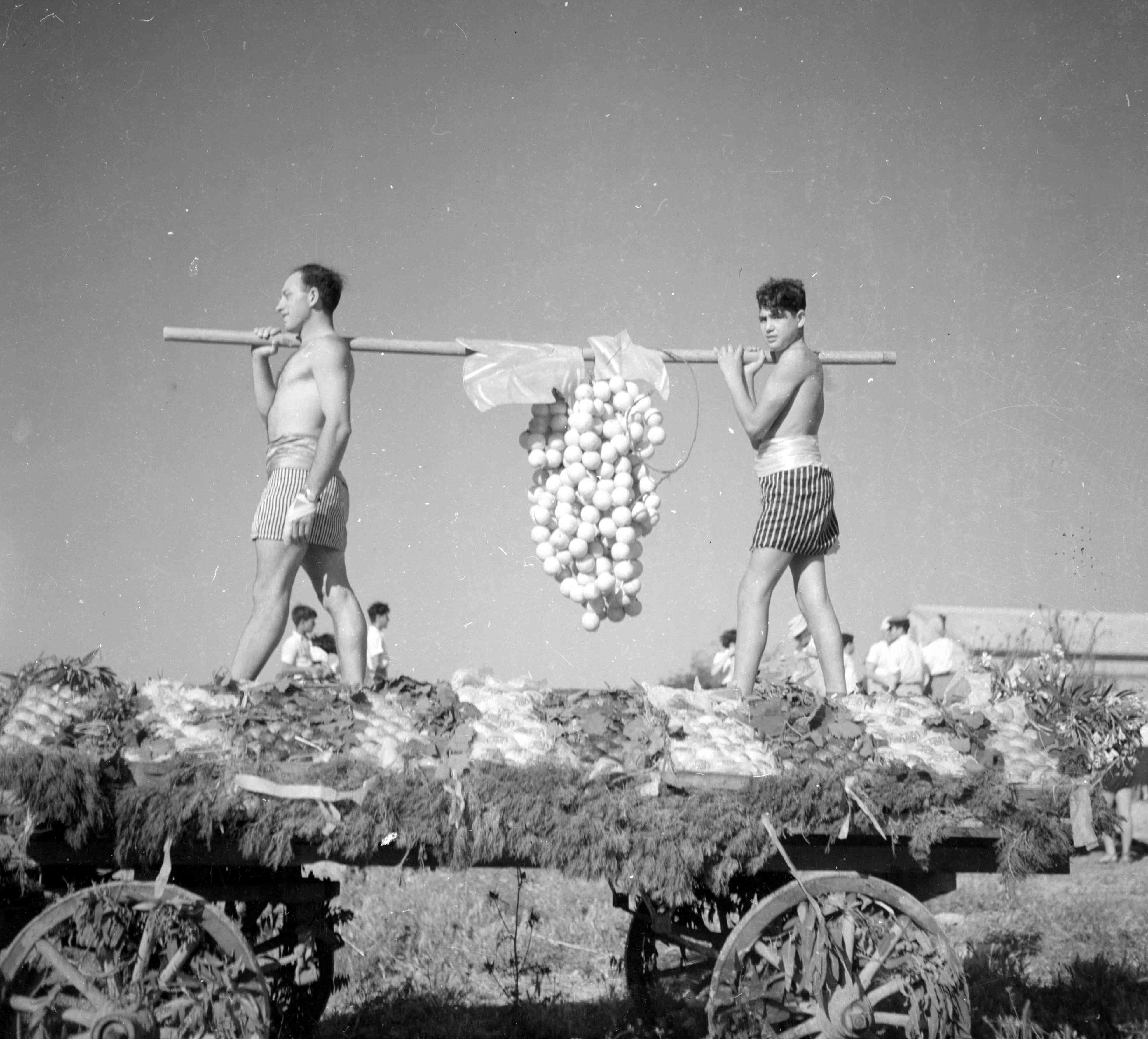 Bickurim 1953